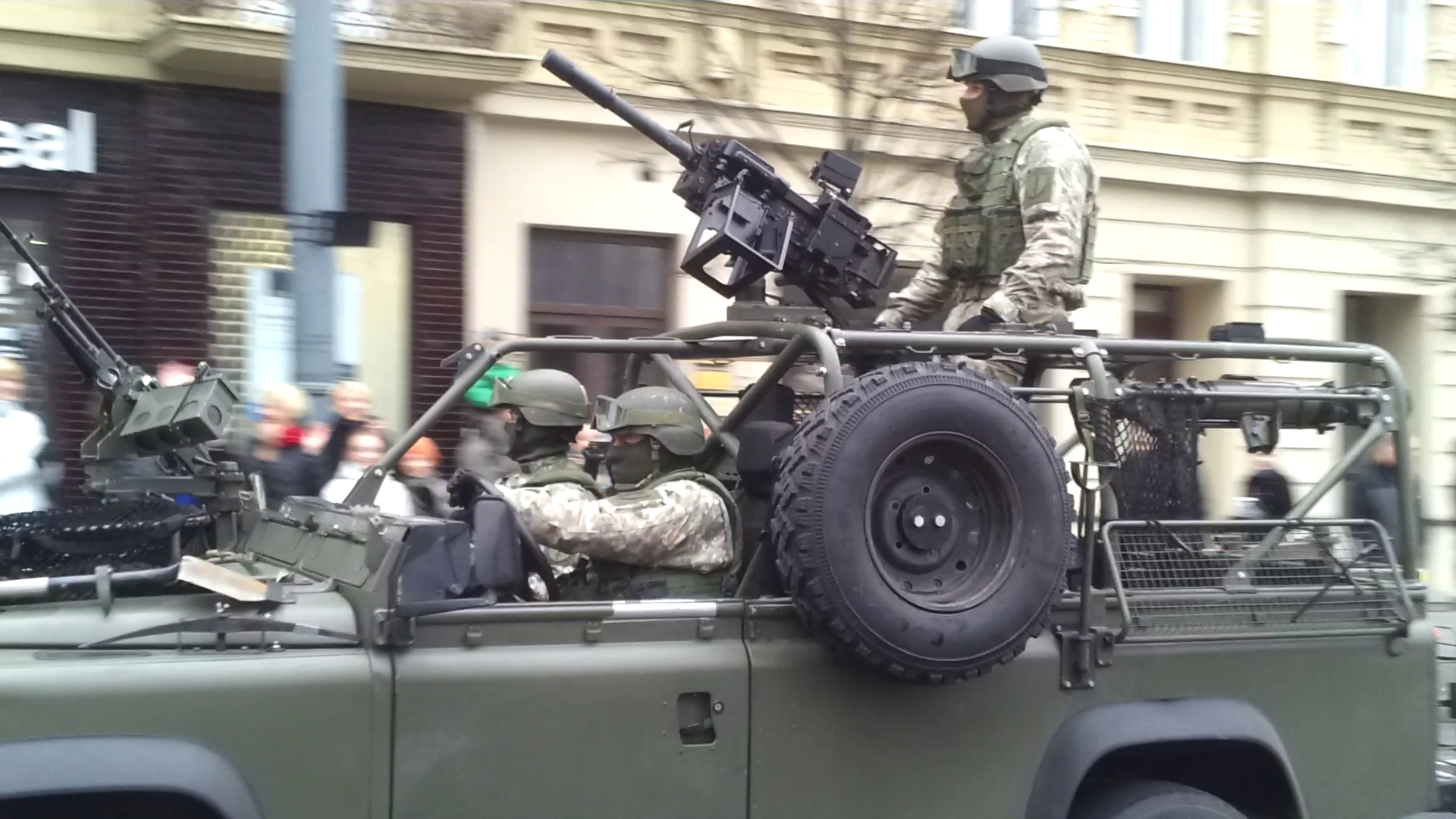 Lithuanian Special Operations Forces in a parade